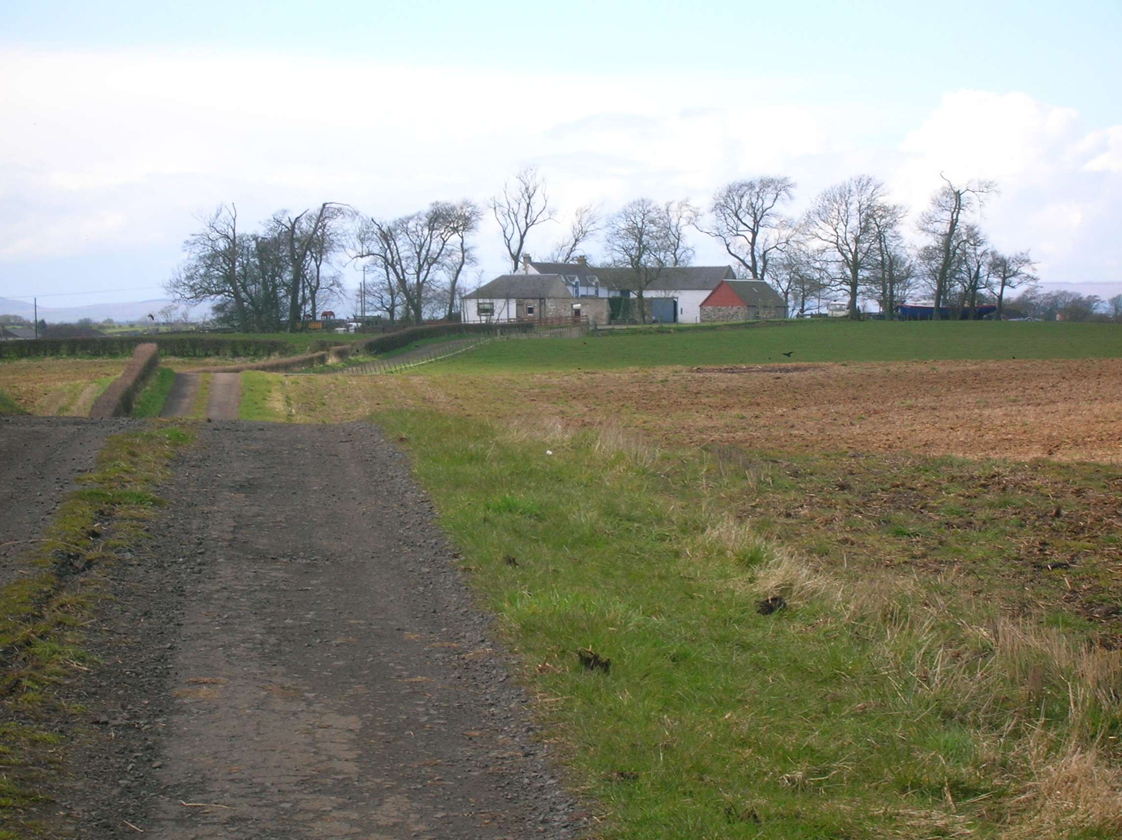 Jock's Thorn Farm from the Kilmarnock side, Ayrshire, Scotland.